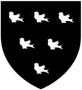 "Sable, six martlets argent". Arms of de Arundel family, Baron Arundel of Wardour